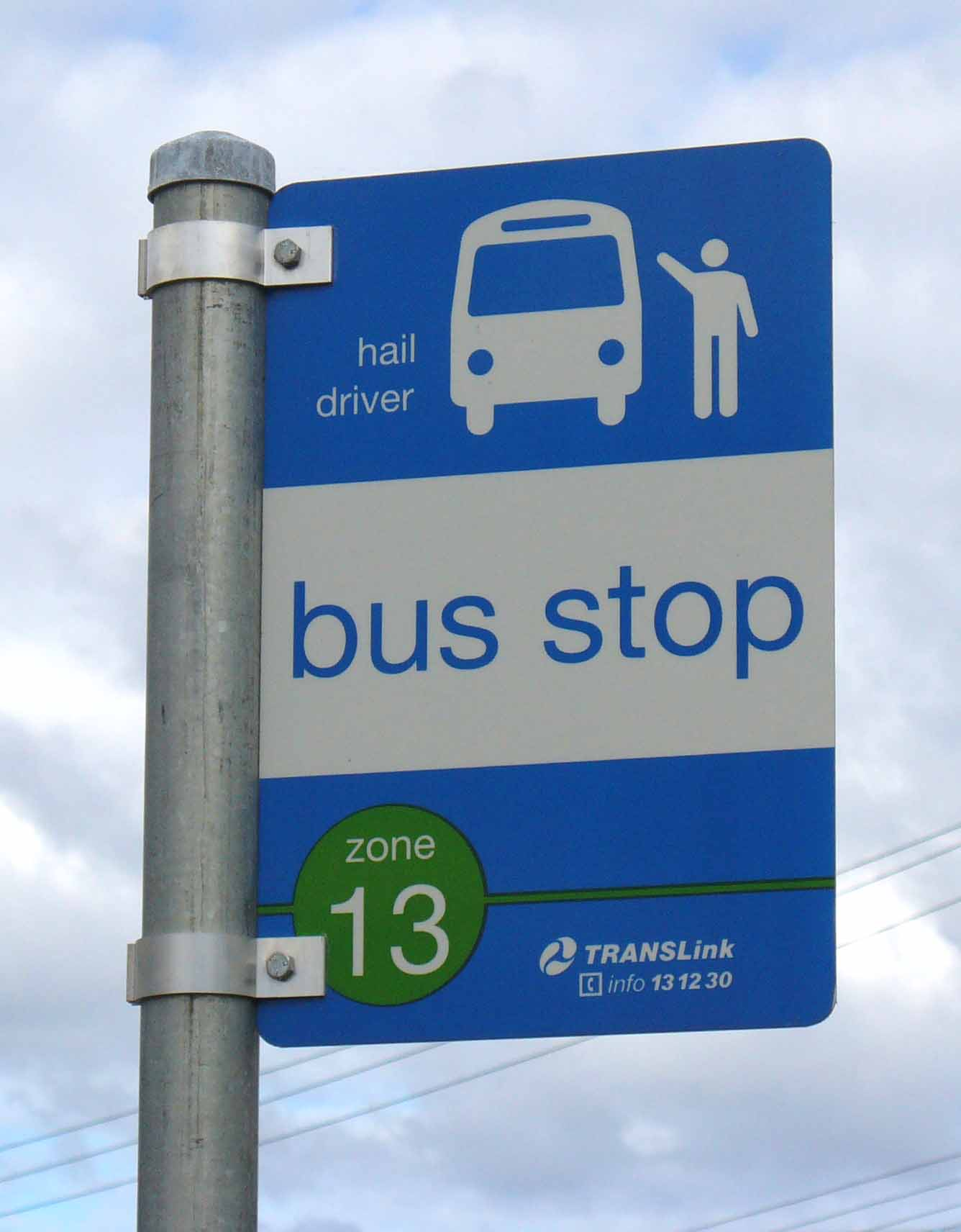 Surfside bus stop